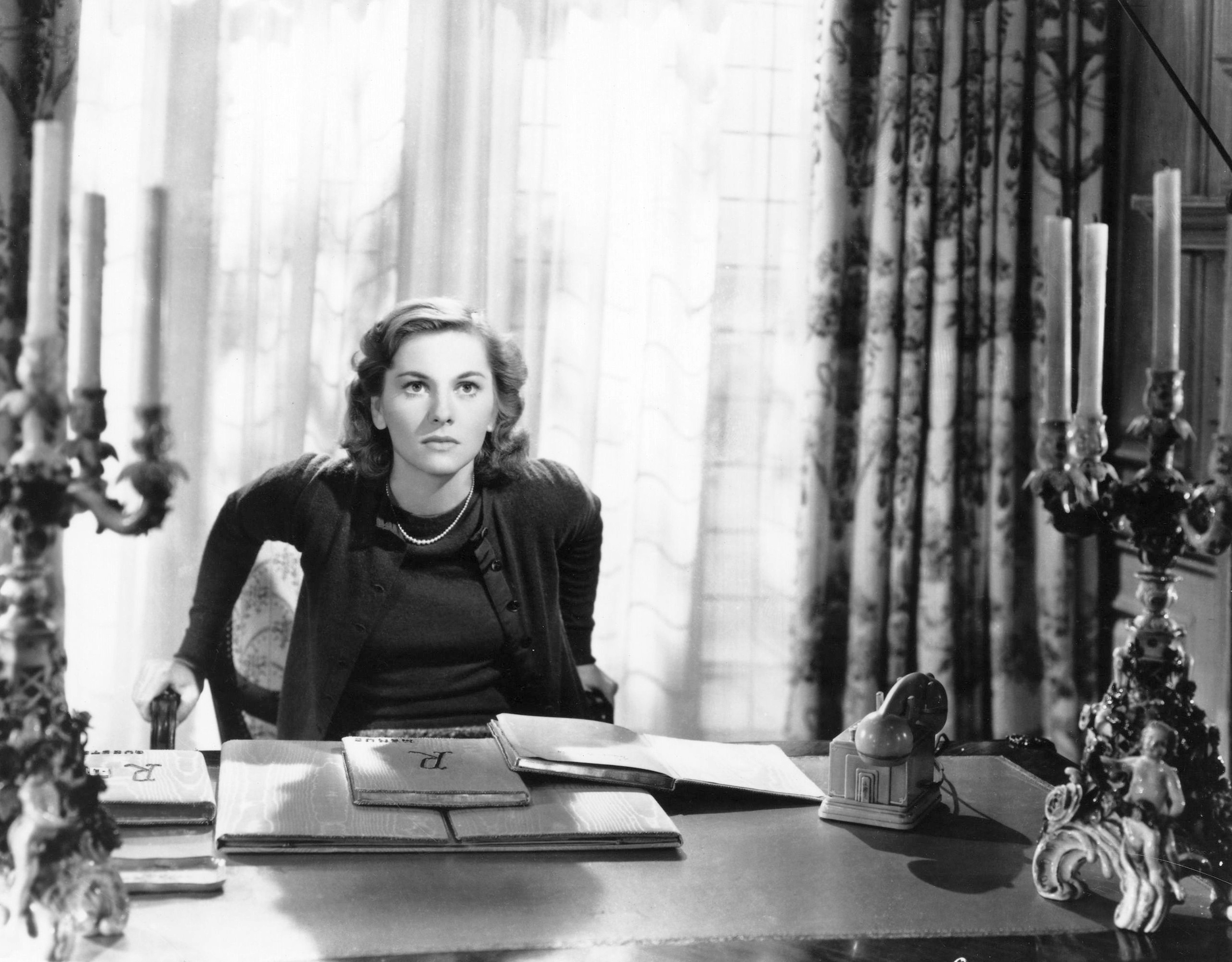 Promotional photograph of Joan Fontaine in the film Rebecca